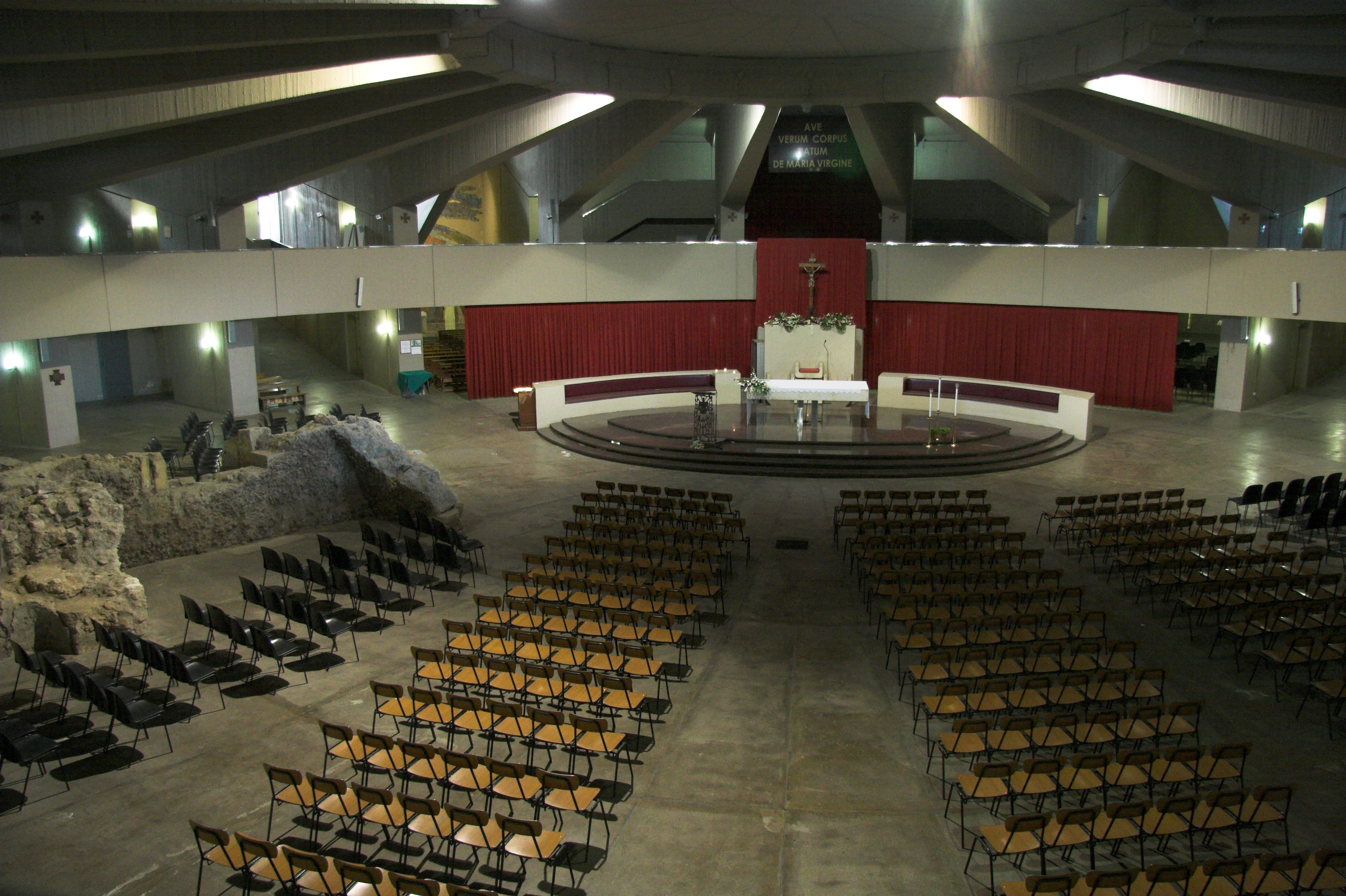 Ancient sanctuary, probably of Demeter, maybe of Roman Age, inside church of the Our Lady tears exuding (Madonna delle Lacrime). Syracuse, Sicily. Sicilian goddesses shedding tears of every epoch, see Empedocles B 6ː "... Netis that her tears live sources."